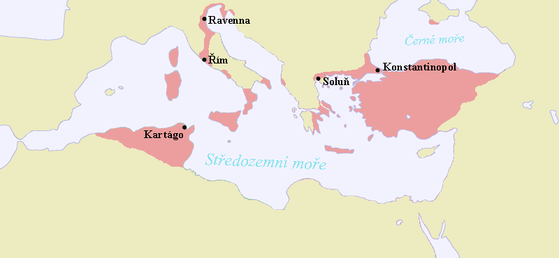 Map of the Byzantine Empire during latter half of 7th century